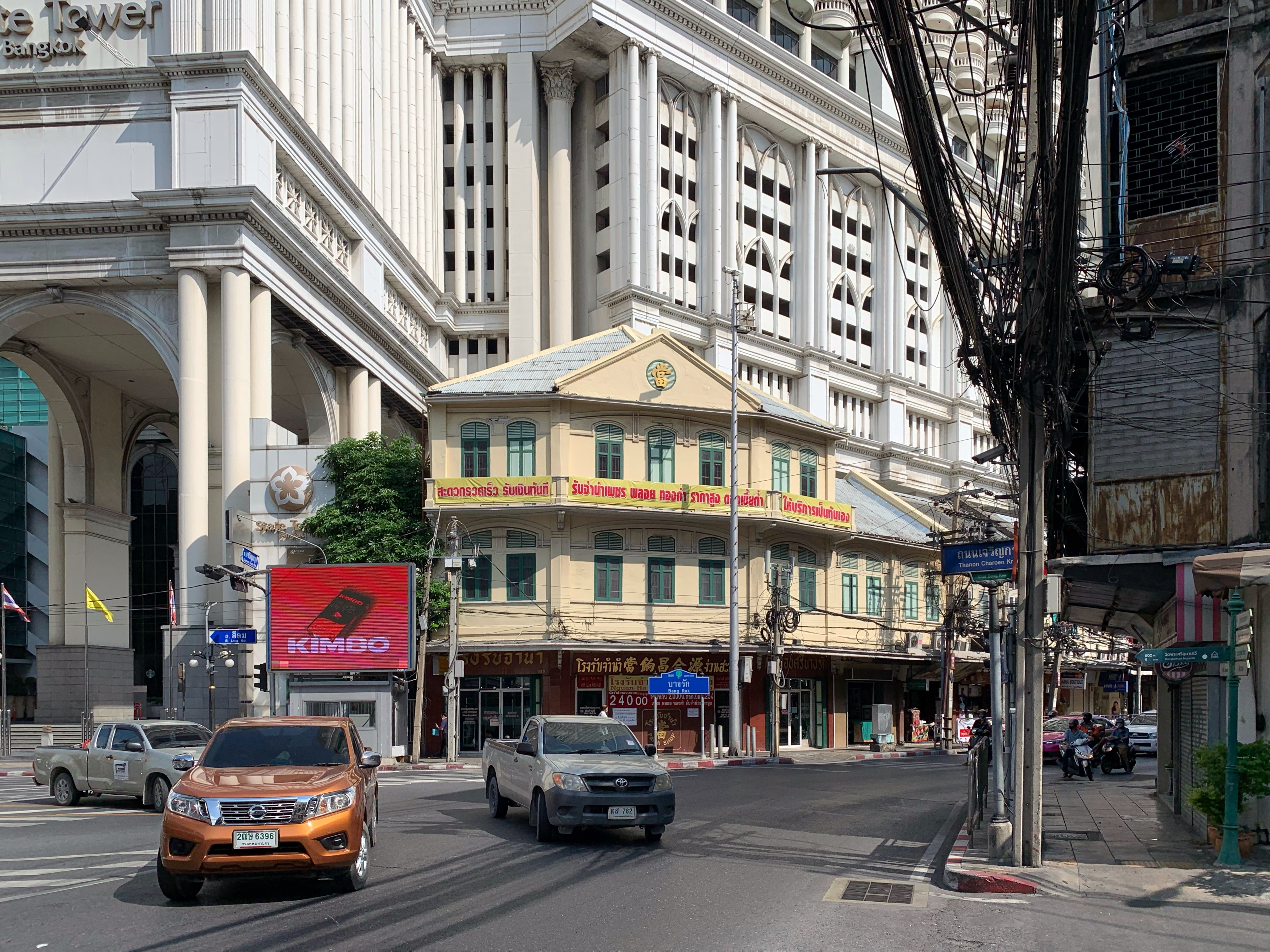 Pawn shop on the corner of Bang Rak intersection